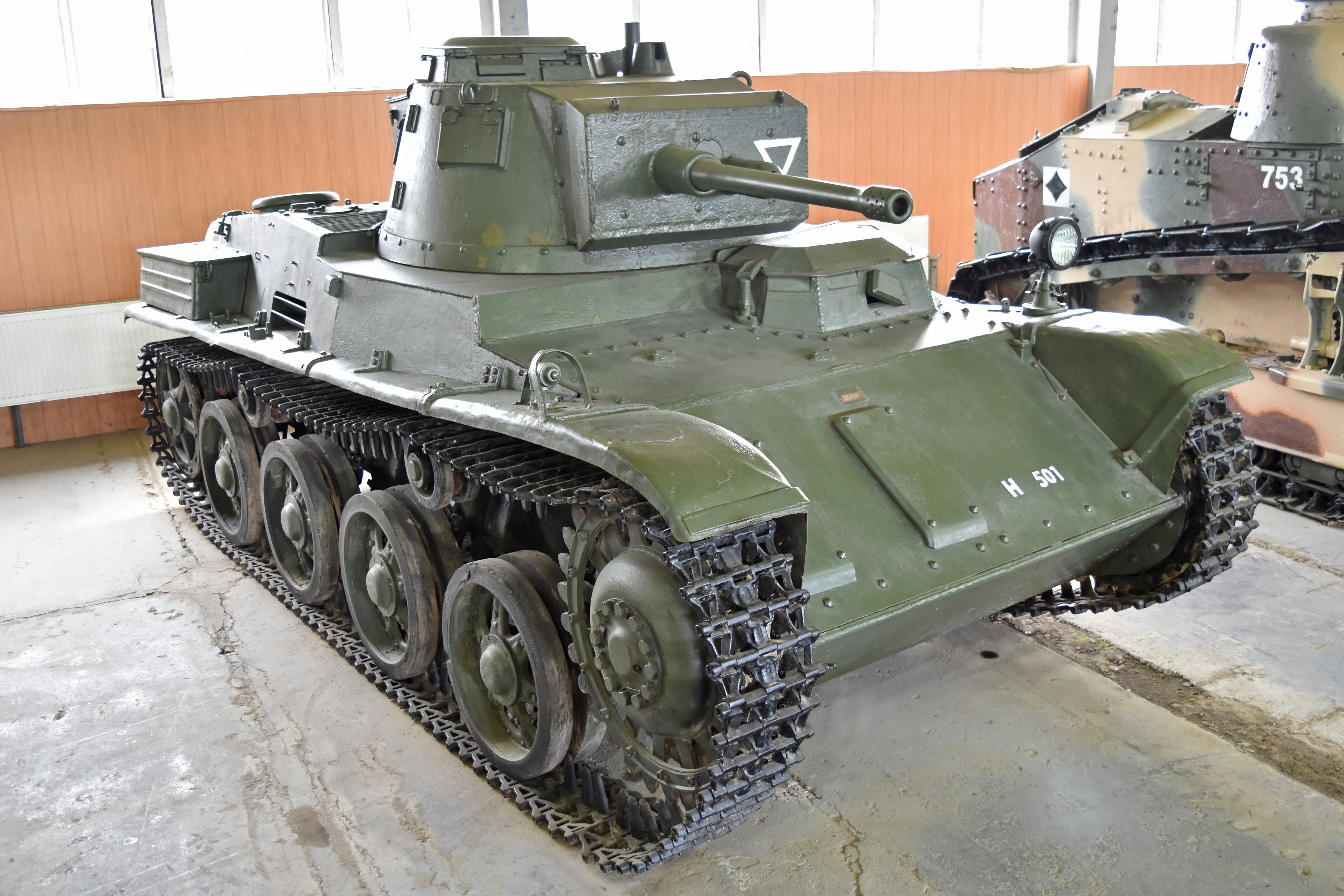 Hungarian light tank, based on Swedish Landsverk L60B and named after the 14th Century Hungarian Knight Miklós Toldi. The Toldi II had increased front armour and a license built 40mm 37M anti-tank gun. 110 were built. This and the adjacent Toldi I are the only surviving examples and are on display in what is best known as Hall 5 of the Kubinka Tank Museum, although its official title is now Pavilion 5 in Area 2 of the Park Patriot museum. Kubinka, Moscow Oblast, Russia. 24th August 2017.